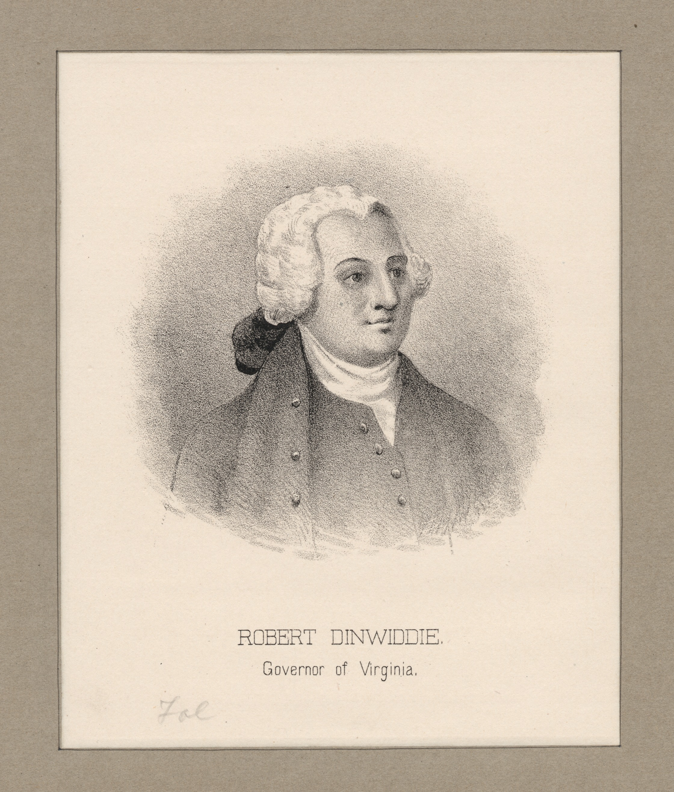 Printmakers include James McArdell, Benson John Lossing and Charles Spooner. Draughtsmen include David McNeely Stauffer. Title from Calendar of Emmet Collection. Citation/reference : EM53